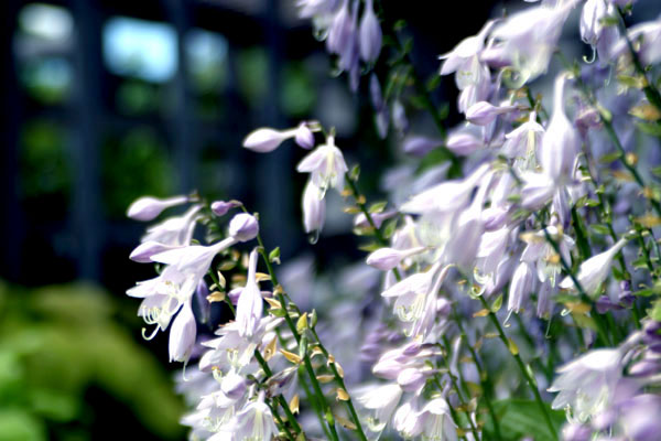 Some hostas in the Greater Gustavus Hosta Garden in Linnaeus Arboretum at Gustavus Adolphus College